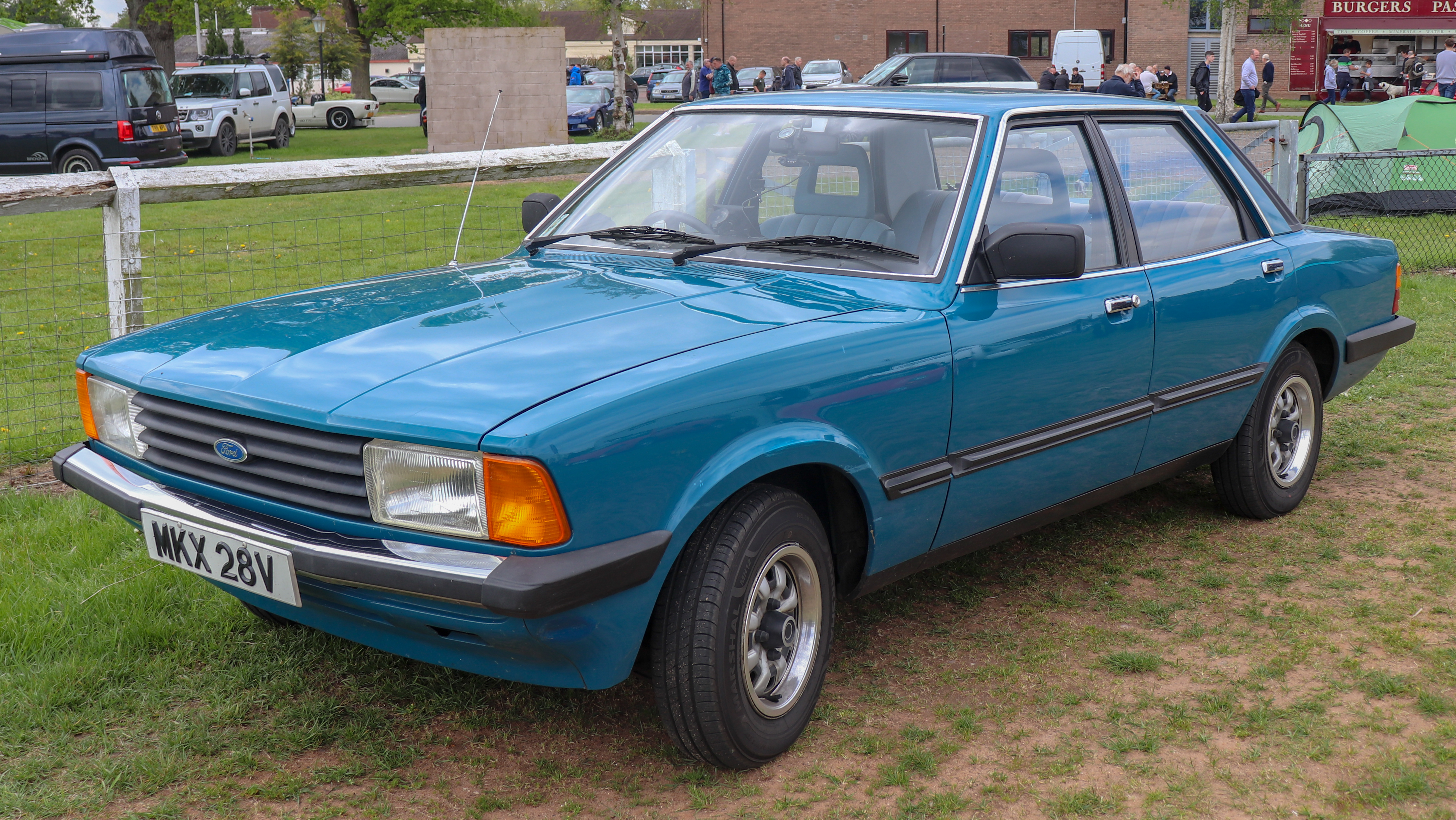 1980 Ford Cortina GL 2.0 Front Taken in Stoneleigh, Warwickshire